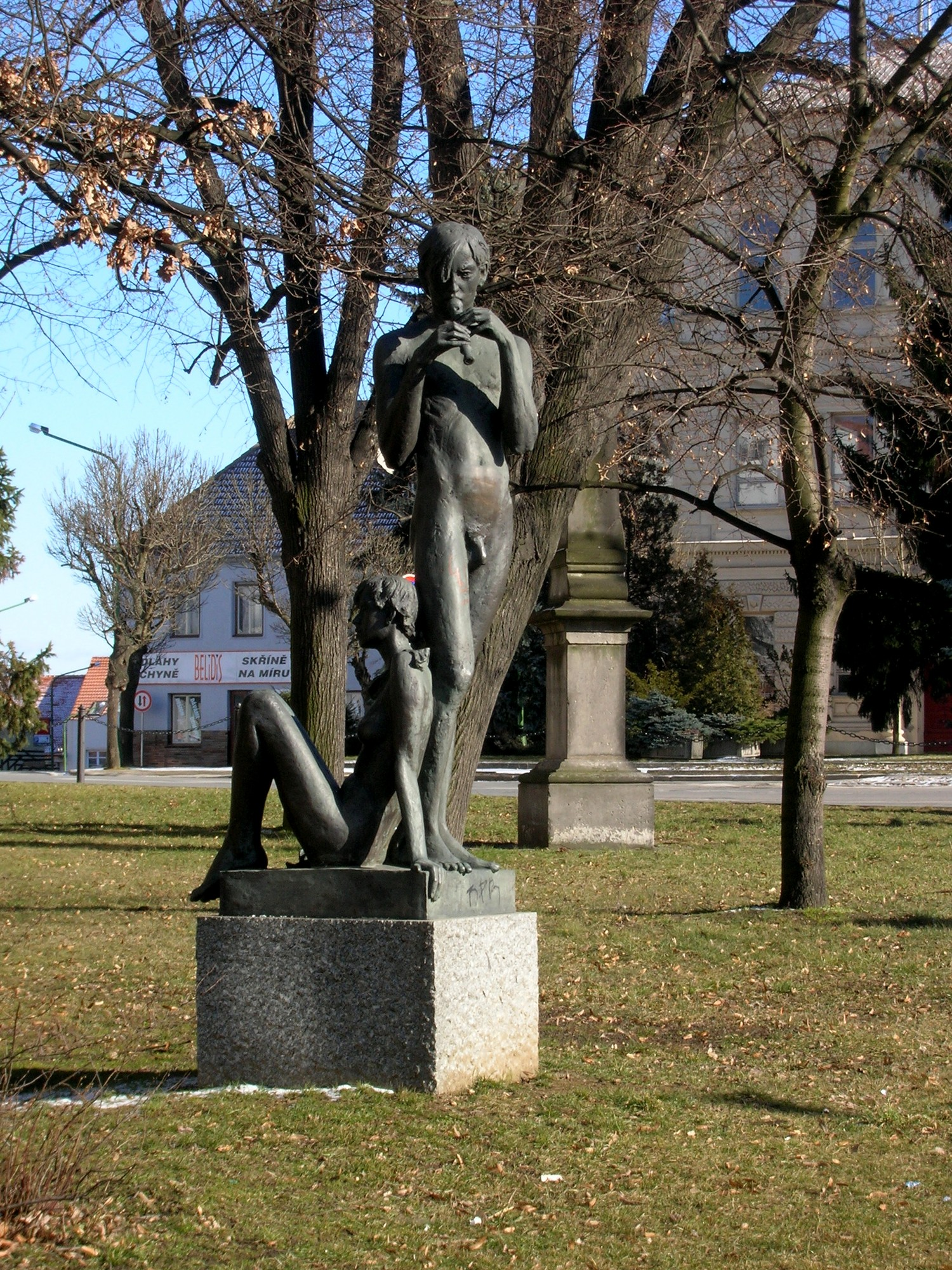 Třebíč. „Hudba“ statue. Made by Academical Sculptor Zdeněk Řehořík